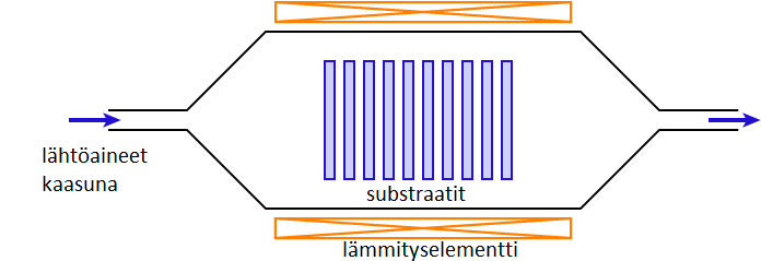 The principle behind the thermal CVD -method.